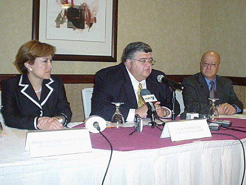 Maria Antonieta Bonilla (Minister of Finance of Guatemala),Agustín Carstens (then Deputy Managing Director of the International Monetary Fund) and Lizardo Sosa (President of the Bank of Guatemala) at Press Conference at the Conclusion of Mr. Carstens' Visit to Guatemala on July 8, 2005.